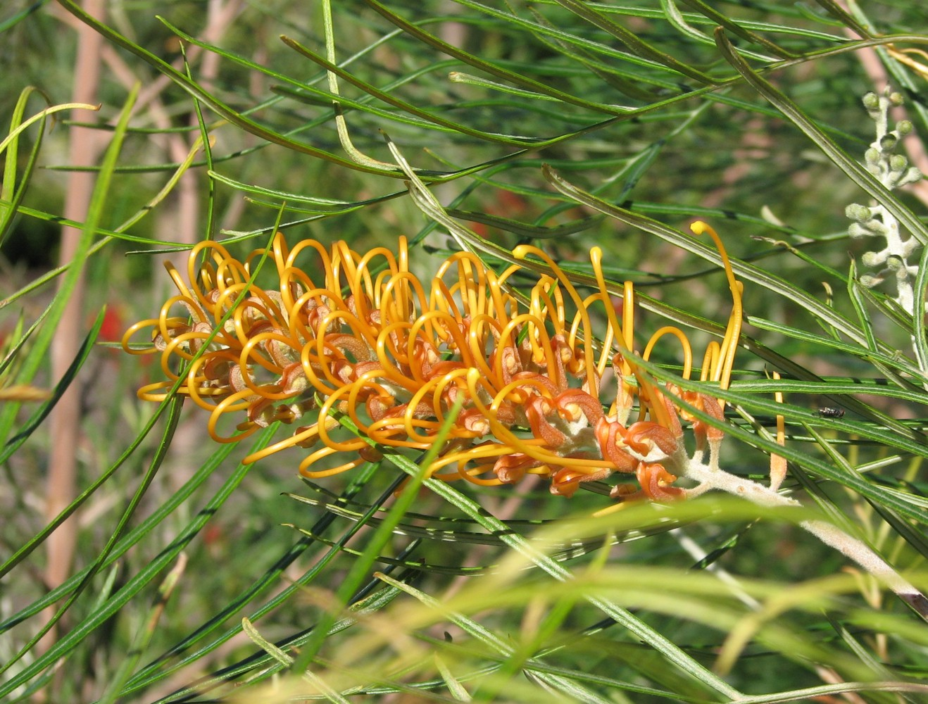 Grevillea 'Honey Gem' (cultivated, labelled), Royal Botanic Gardens Cranbourne, Victoria, Australia